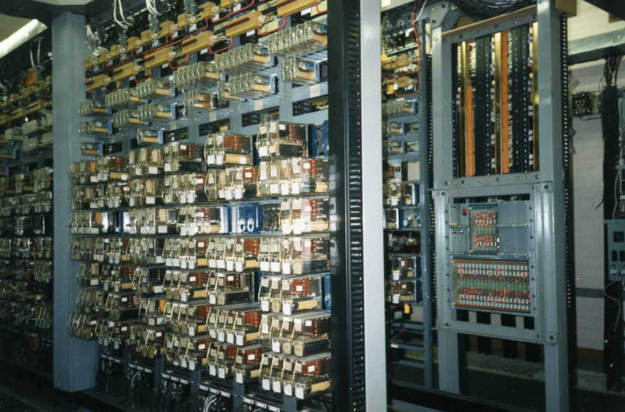 Scan of original photograph Signalhead 11:56, 18 February 2007 (UTC)